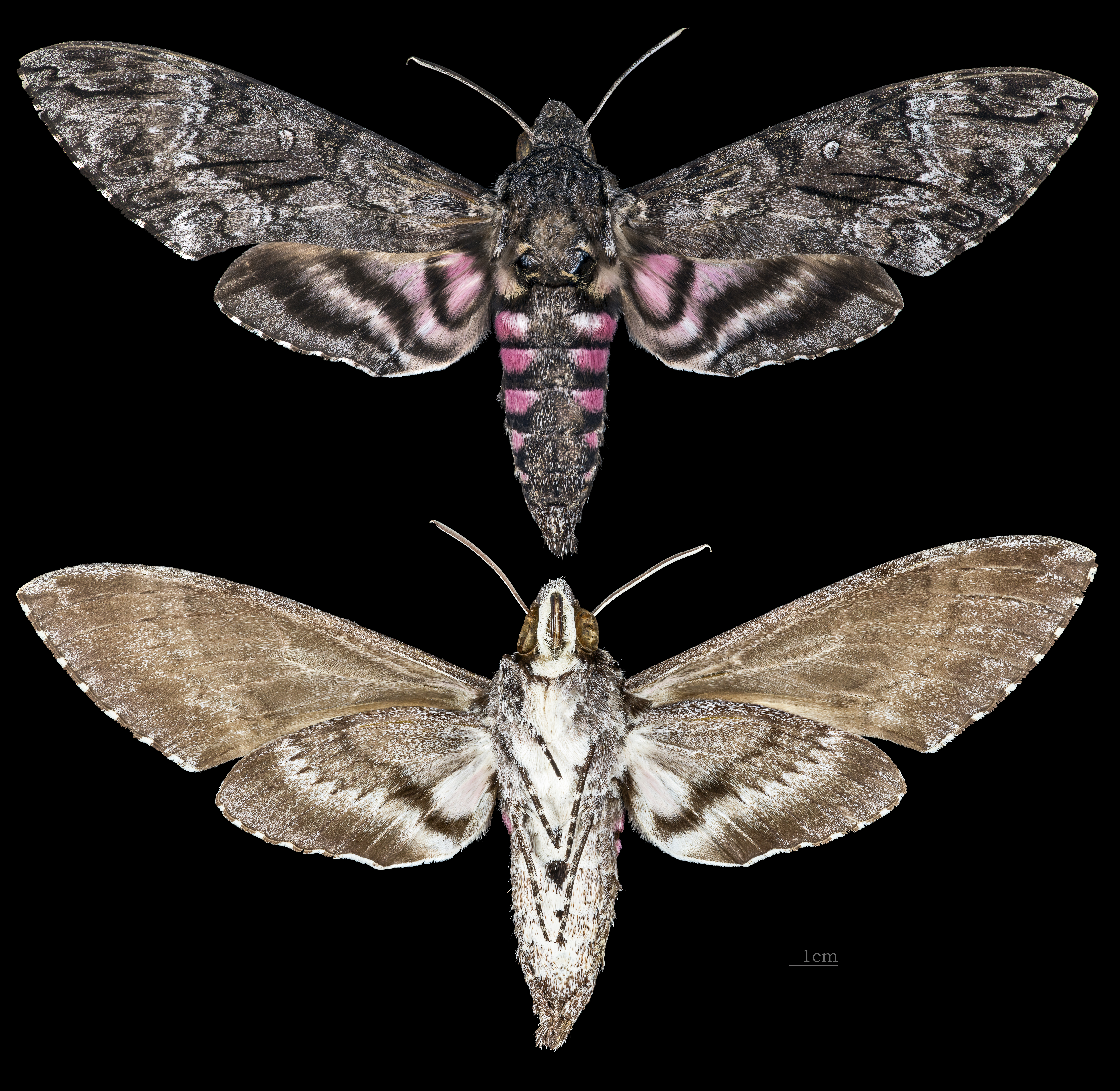 Pink-spotted Hawkmoth - Two views of same specimen Collection of the Mathematician Laurent Schwartz